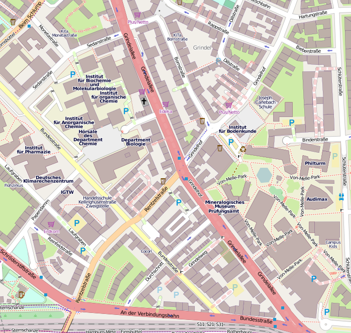 mapnik render of UHH campus